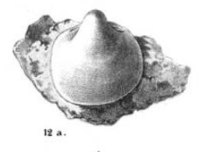 Meiocardia faxeensis (Lundgren, 1867), Glossidae, Bivalvia, Mollusca, from Lundgren (1867: fig.12a)